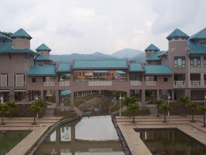 A view of IIUM. The Pusu river flows between HS Building and Education Building.